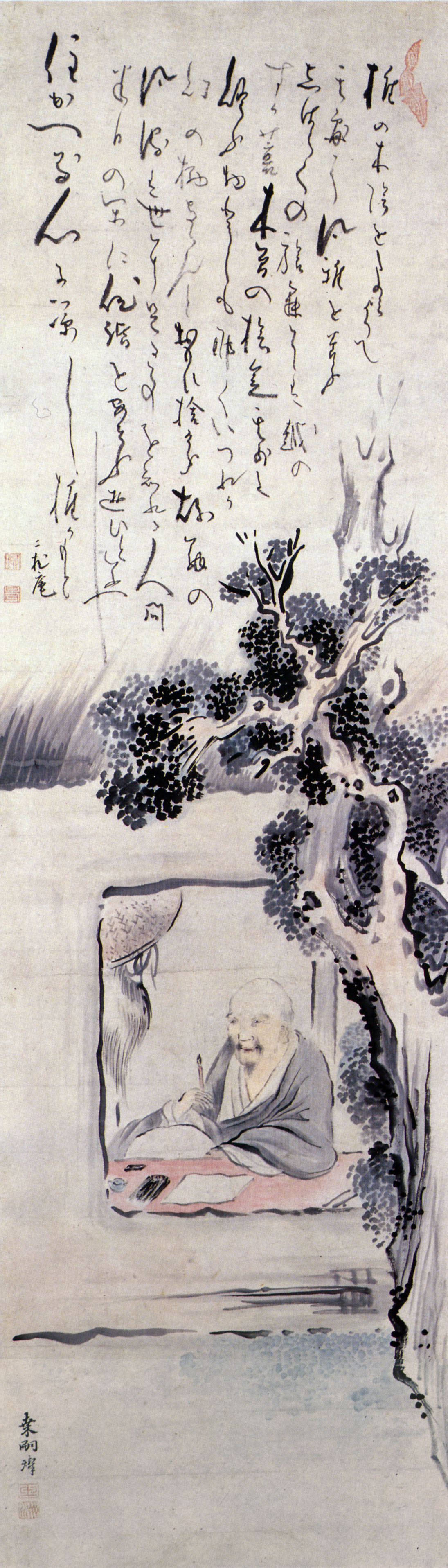 Private Collection,New York